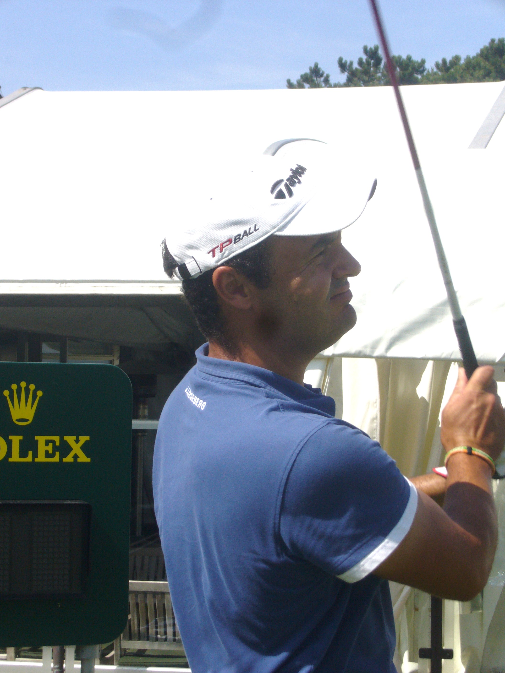 Simon Kahn